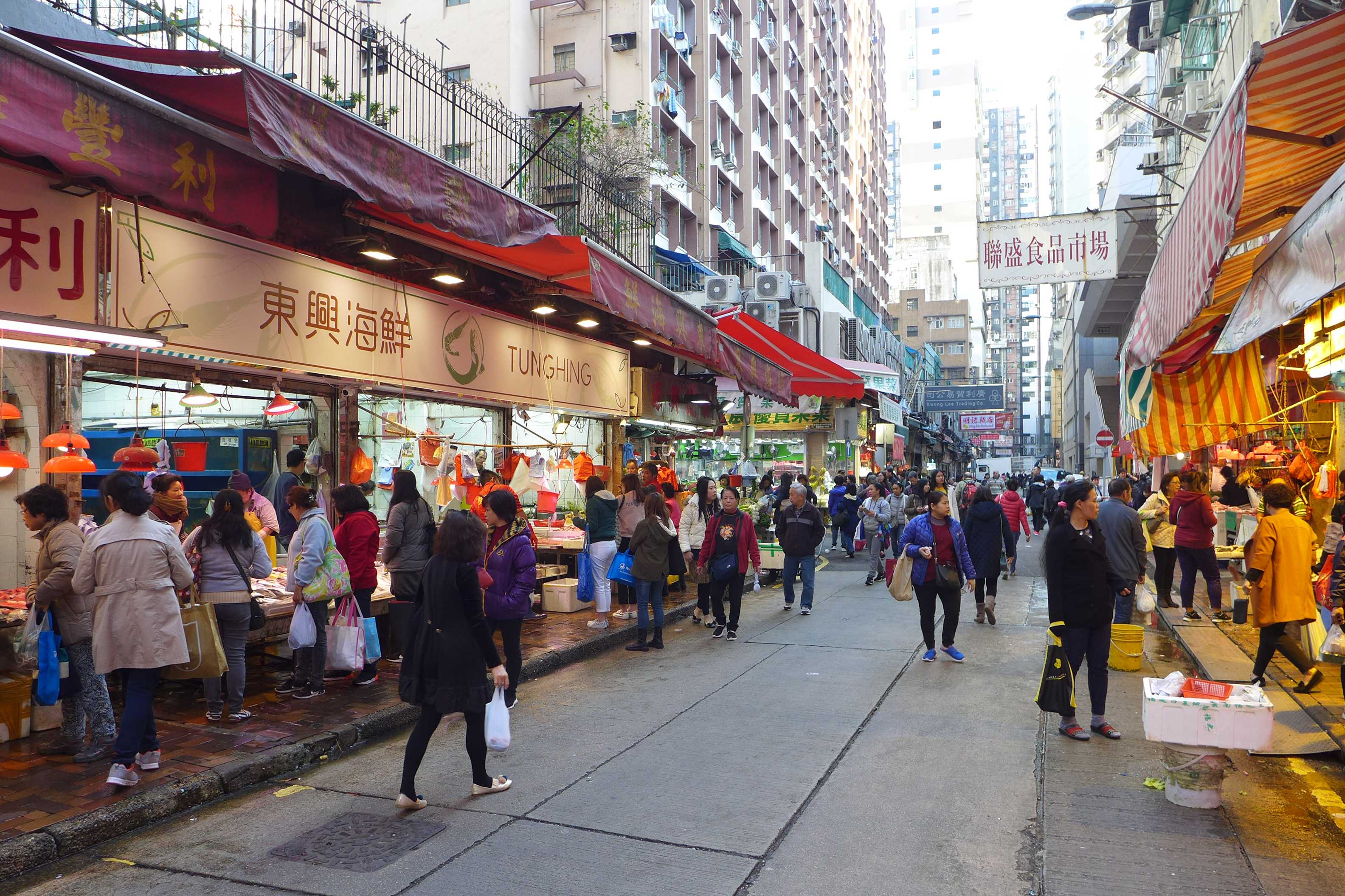 Bowrington Road